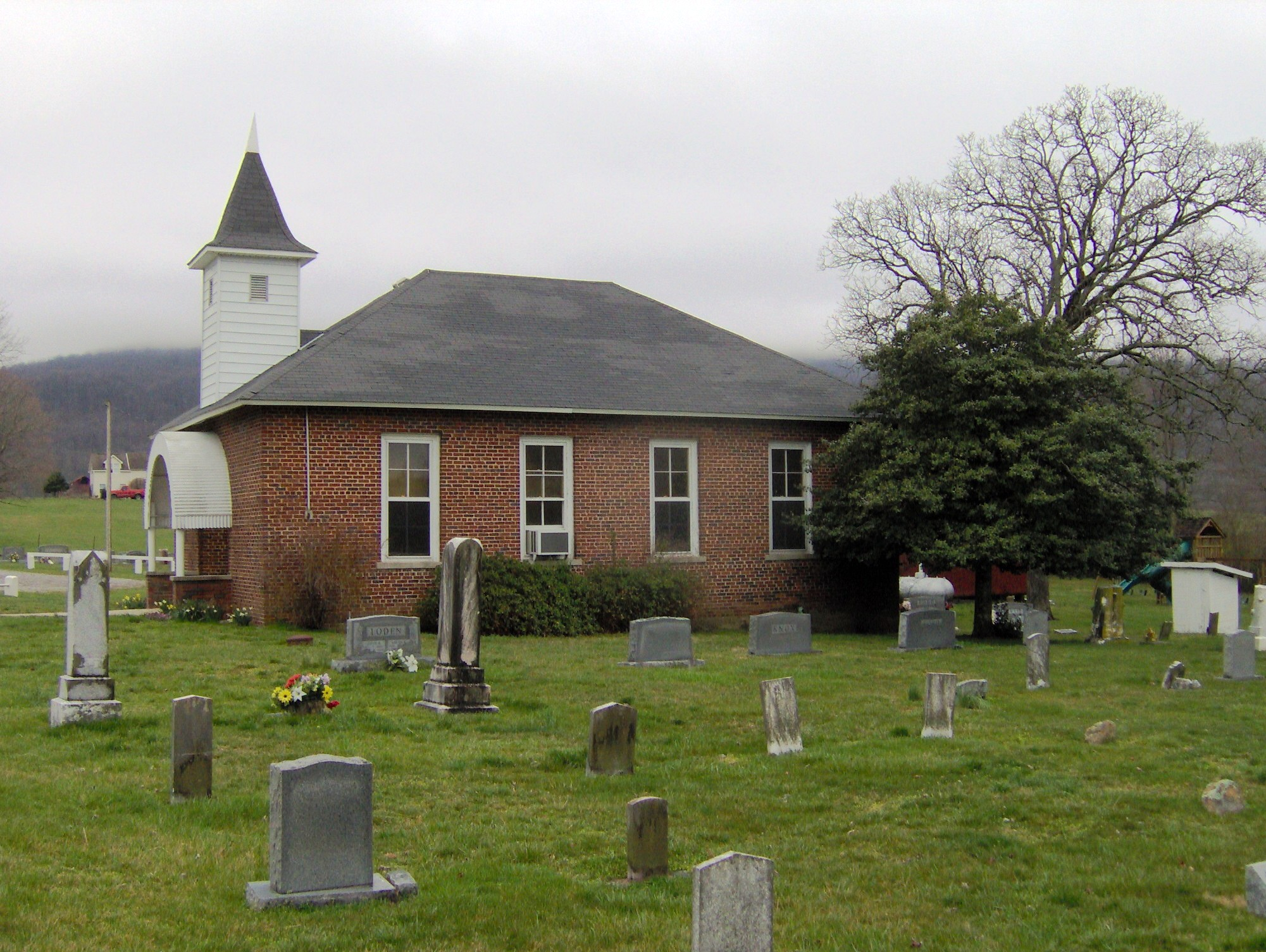 The Grassy Cove United Methodist Church in Grassy Cove, Tennessee, in the southeastern United States. The church was first established in 1803 by the cove's first Euro-American settlers.